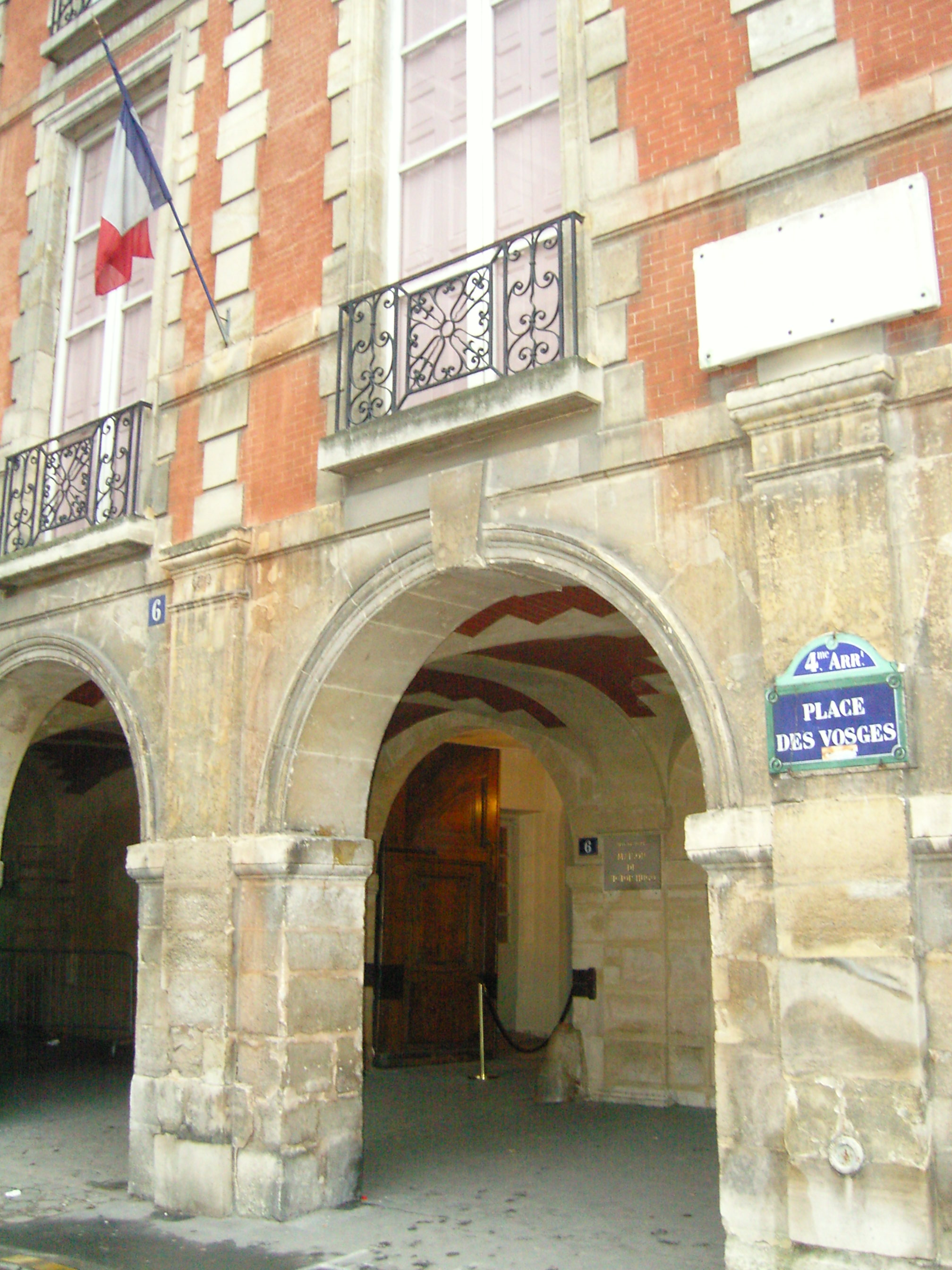 A photo of Maison de Victor Hugo